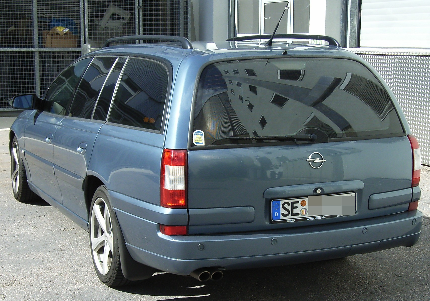 station wagon (estate car) Opel V94 (Omega B), built ca. 1999, rear view